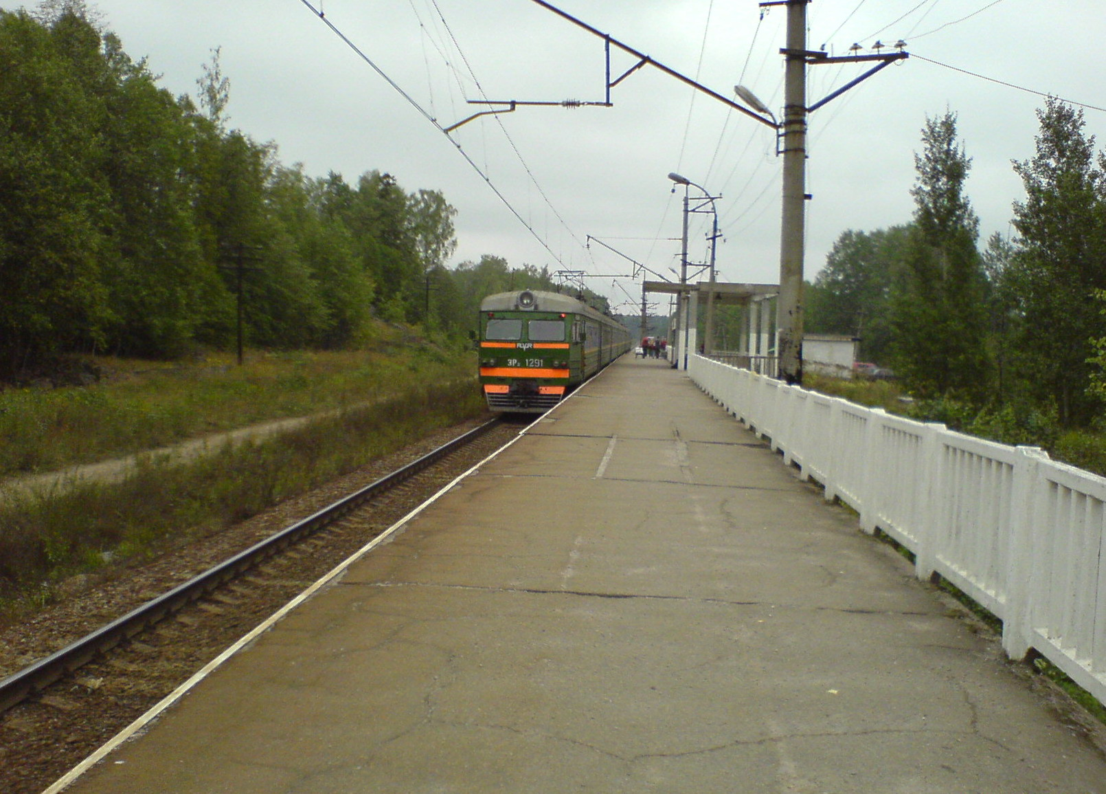 Sinyovo train station of the St. Petersburg - Hiitola railway